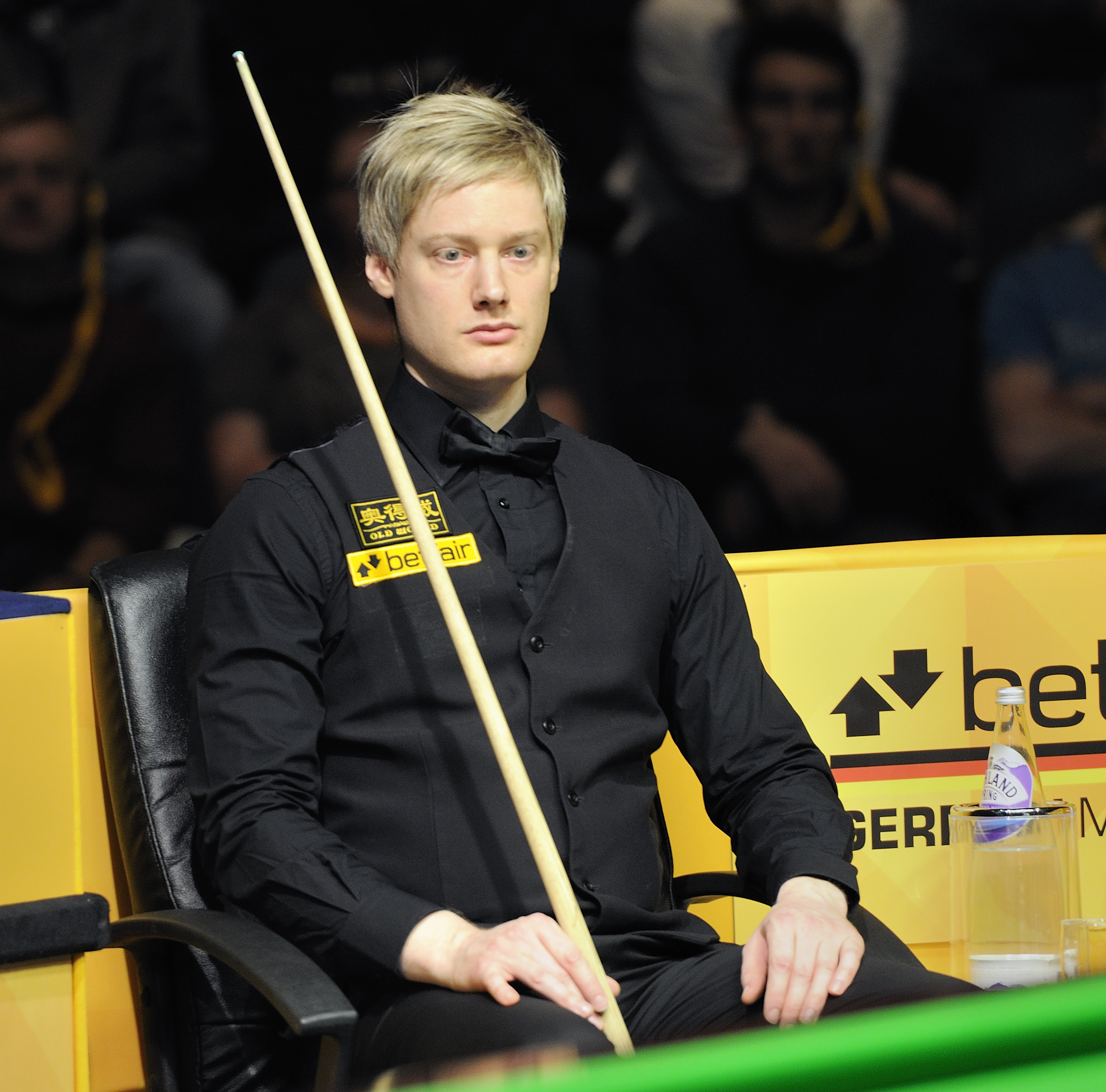 Picture taken in Berlin during the Snooker German Masters in 2013. Neil Robertson.